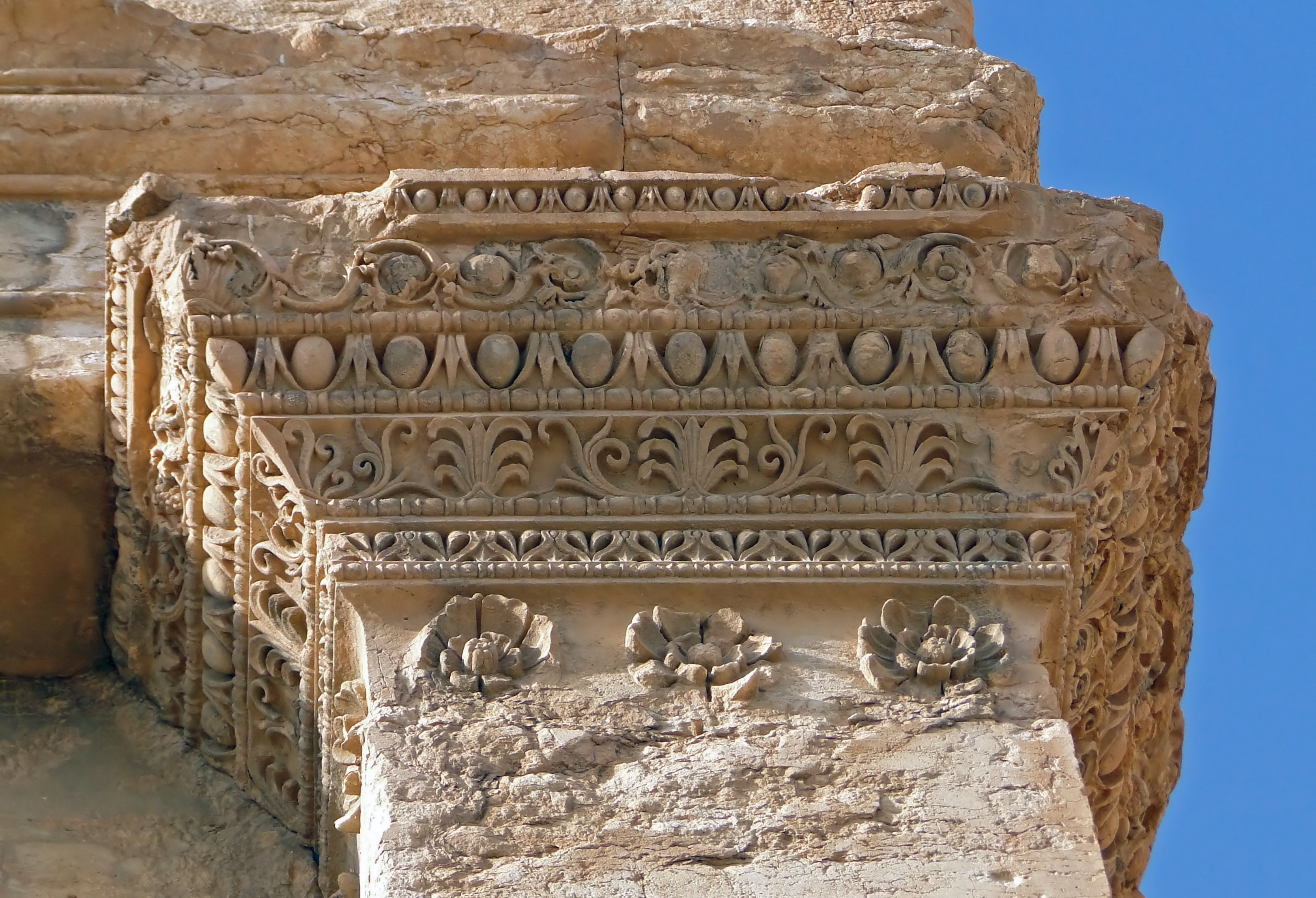 Detail of a capital in Temple of Bel, Palmyra, Syria